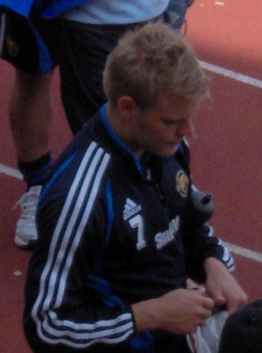 Swedish football player Johan Arneng after an open traning at Stockholms Stadion.